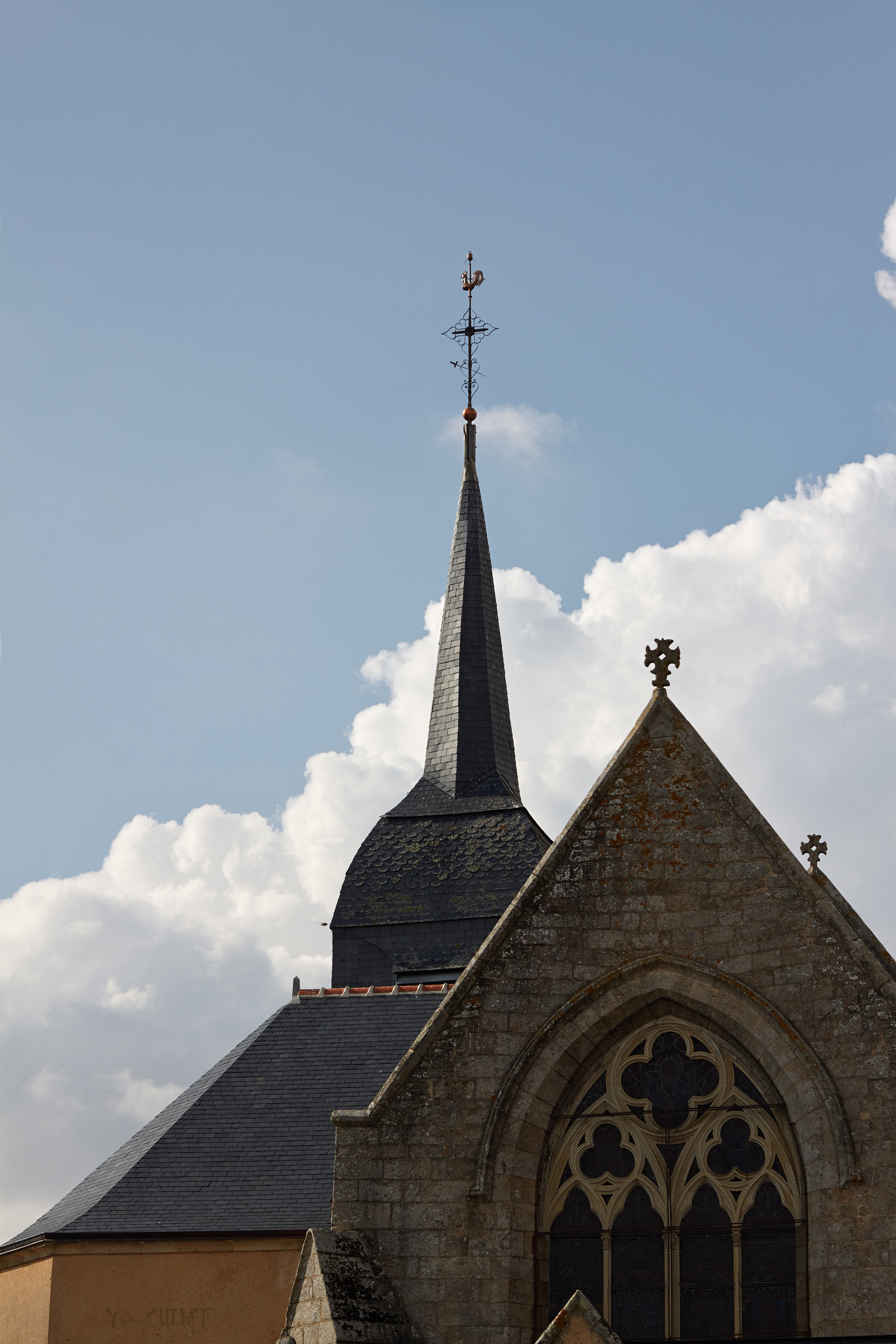 Church of BEAUFOU, Vendée France